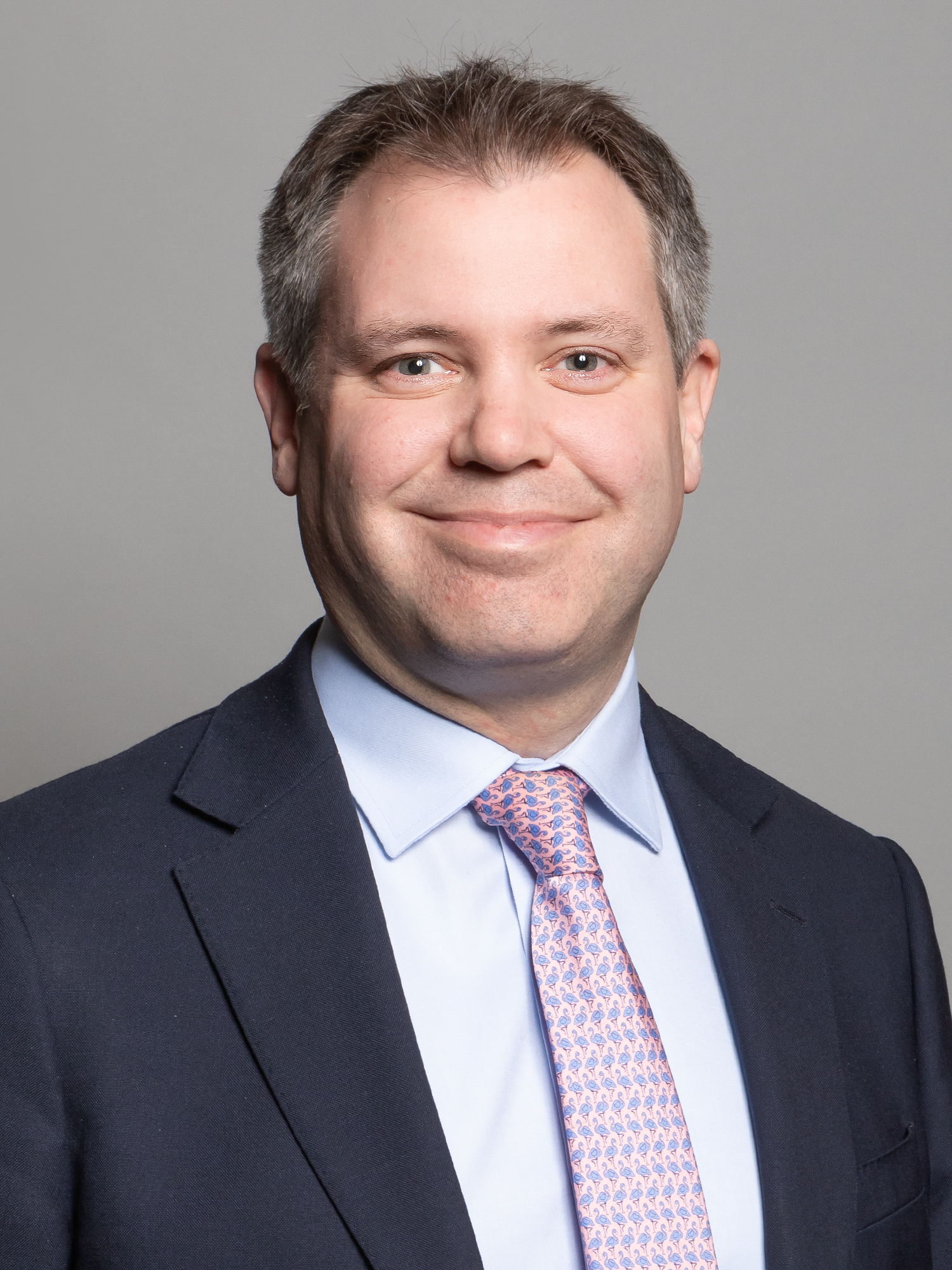 Official portrait of Edward Argar MP 3×4 portrait of Edward Argar